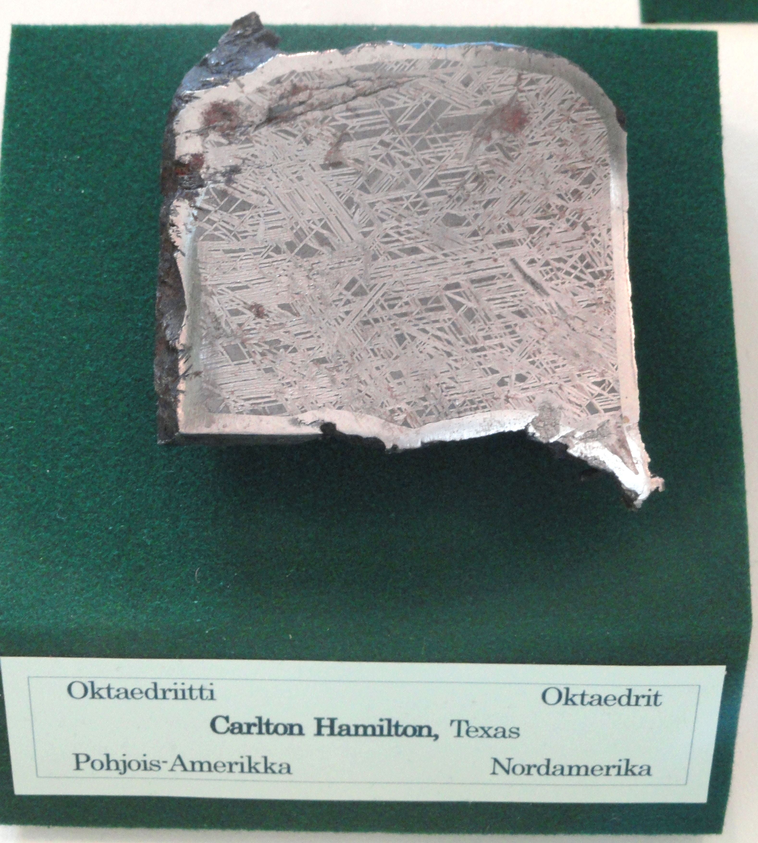 Carlton meteorite slice, iron IAB-sLM. Carlton-Hamilton is a synonym for Carlton. Exhibit in the Arppeanum, Helsinki, Finland.